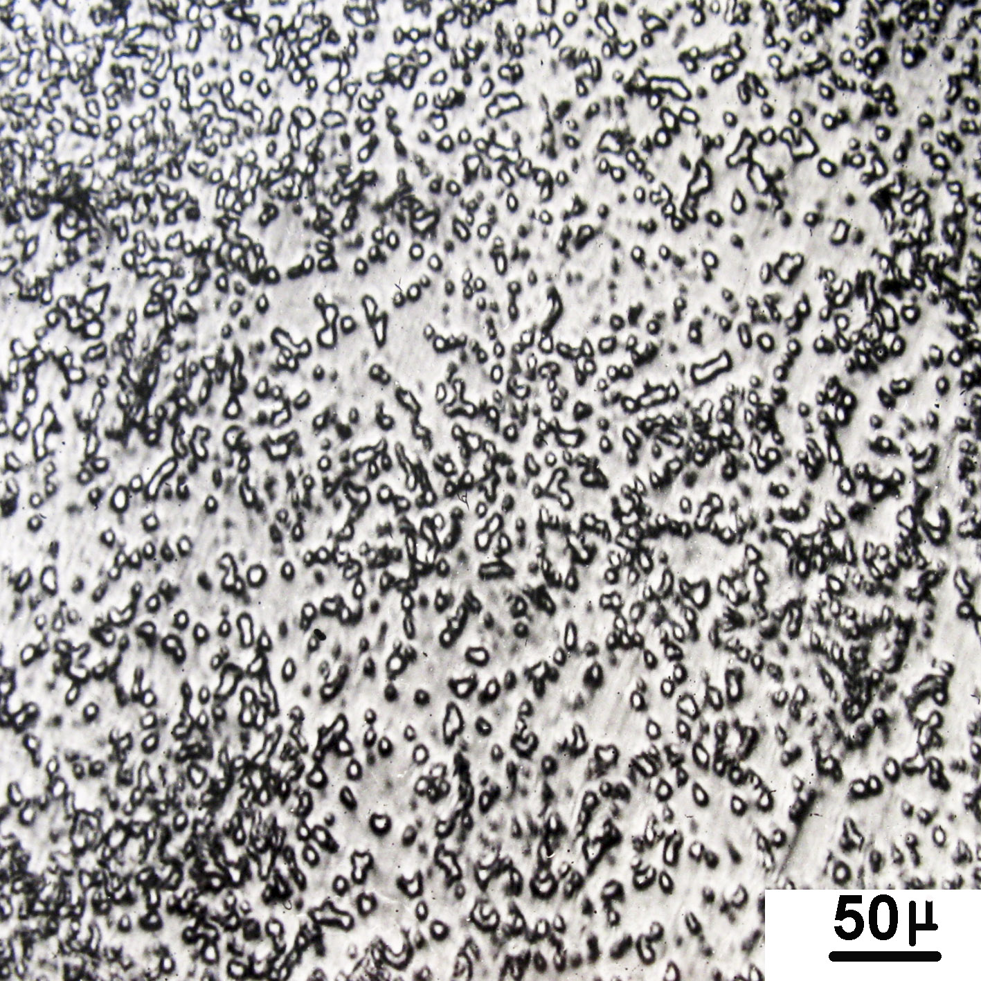 TEM micrograph of spheroidal pearlite in a eutectoid (0.8% carbon) steel after spheroidizing anneal. Nital etch.